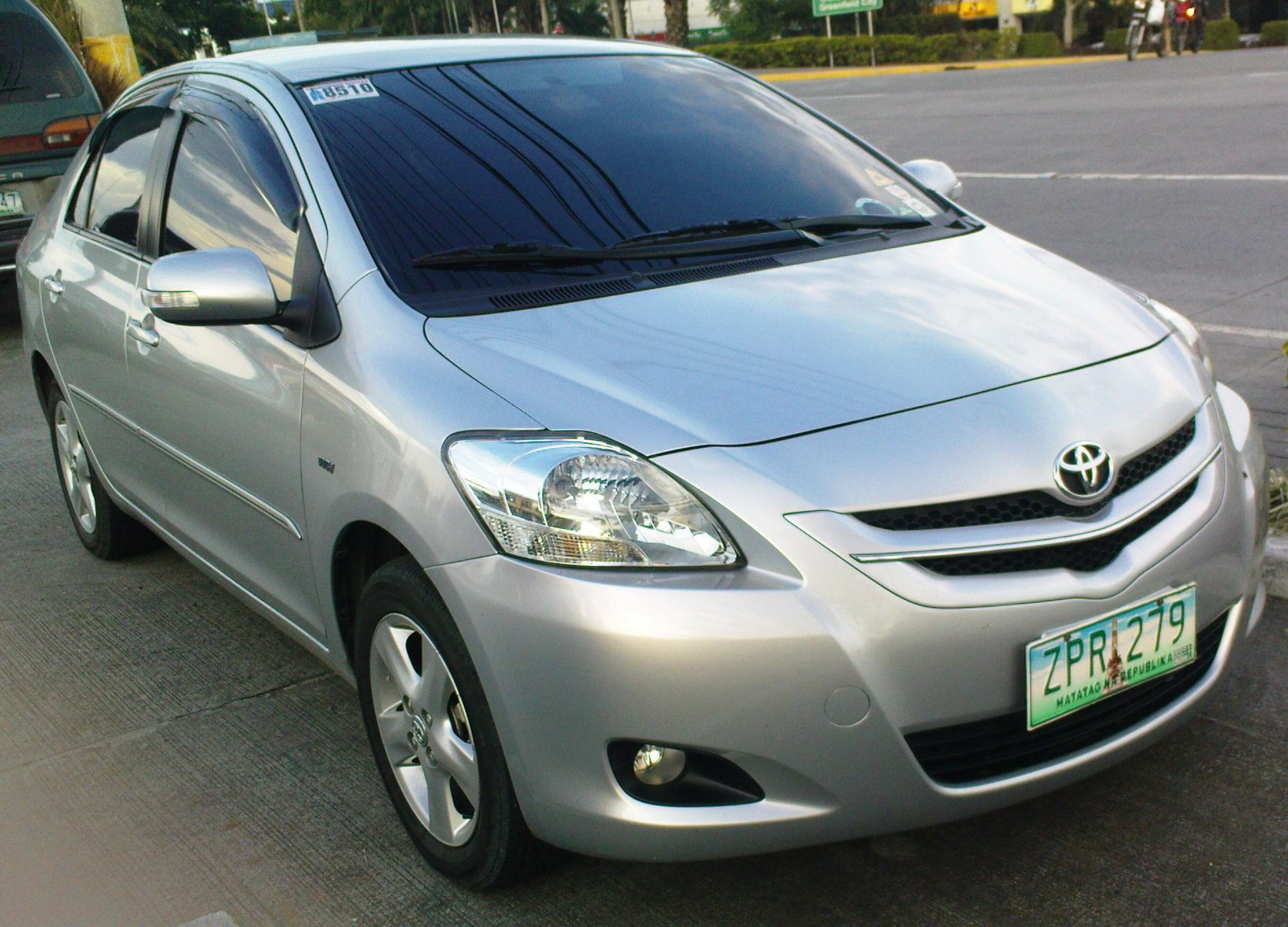 2008 Toyota Vios 1.5G